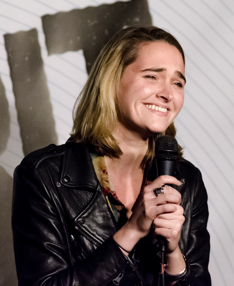 Jena Friedman in Los Angeles, California